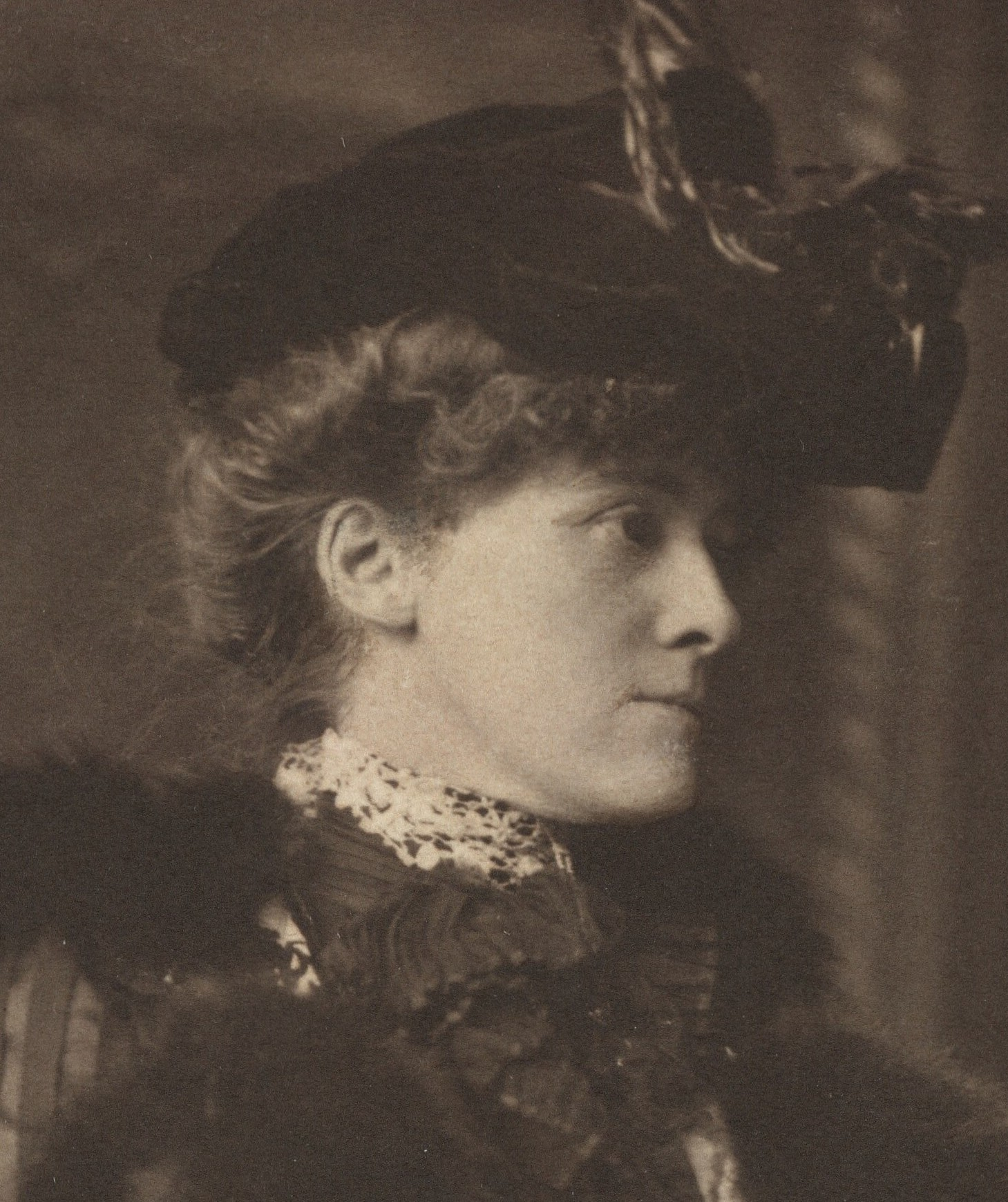 Photograph taken in Newport, Rhode Island, of author Edith Wharton, wearing hat with a feather, coat with fur trim, and a fur muff. Image courtesy of the Beinecke Rare Book & Manuscript Library, Yale University.